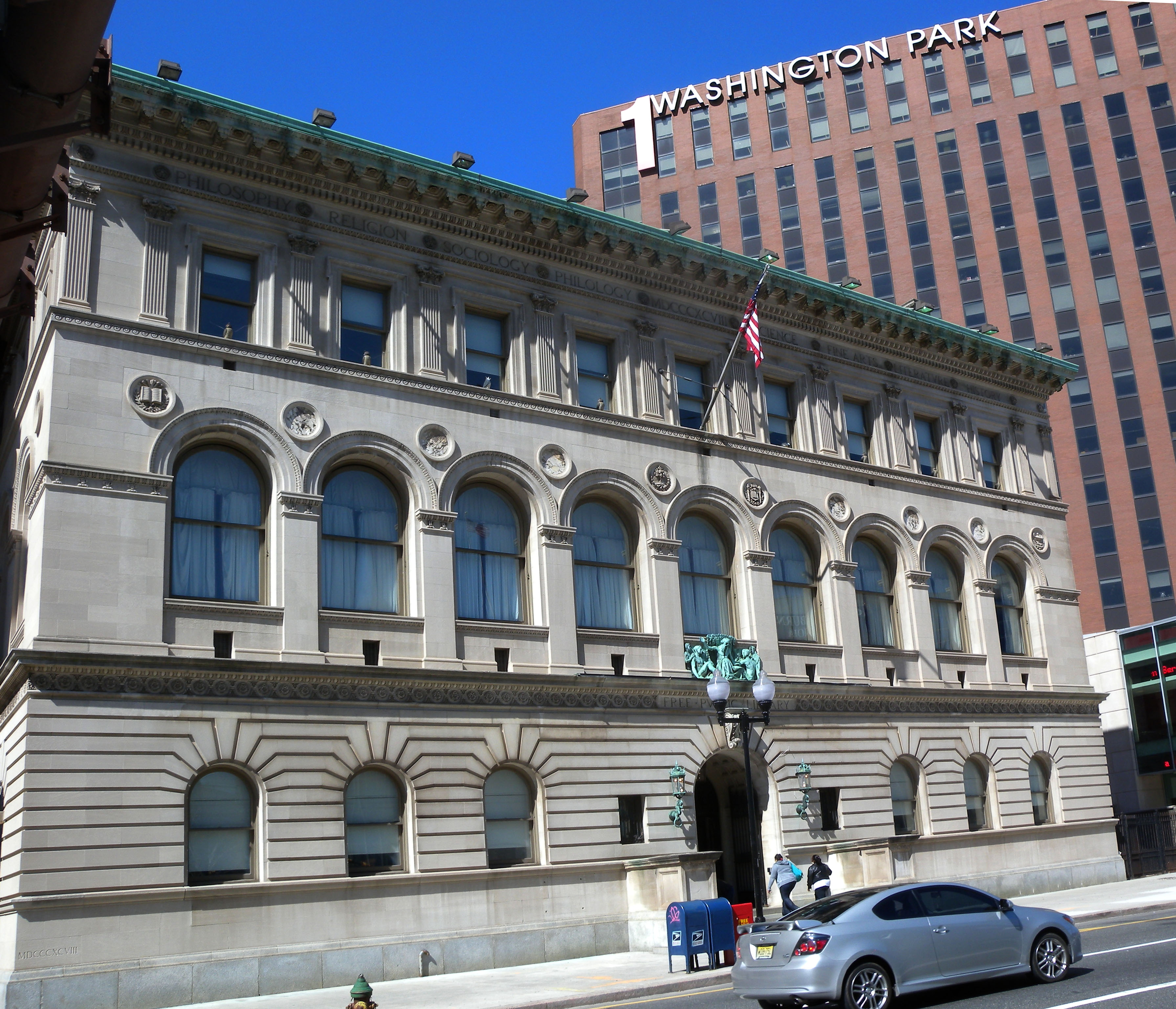 Newark Public Library Main Library - Looking west at NPL on a sunny midday. Designed by Rankin and Kellogg of Philadelphia.